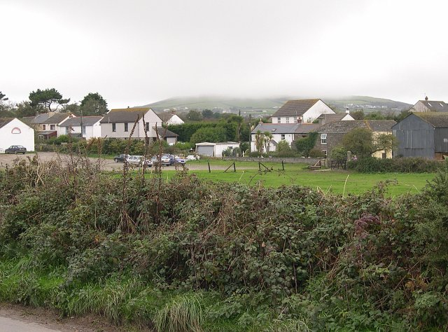 Goonbell. This shows the eastern end of Goonbell where the ribbon development housing expands into something more like a small village. In the background is St Agnes Beacon with its head in the clouds.